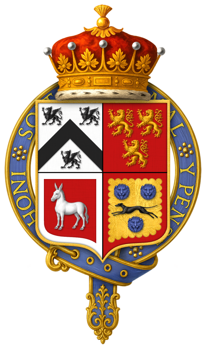 Shield of arms of George Finch, 11th Earl of Winchilsea, KG, PC, FRS